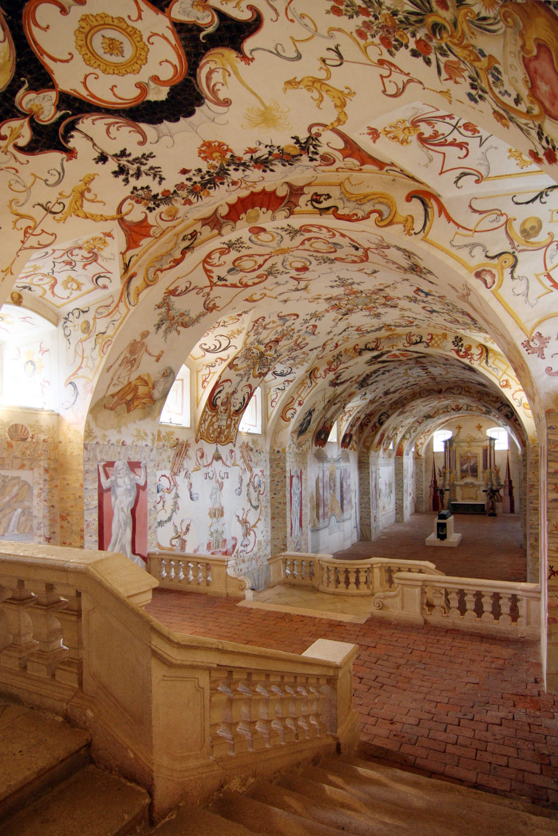 The so-called "crypt" at Stift Altenburg